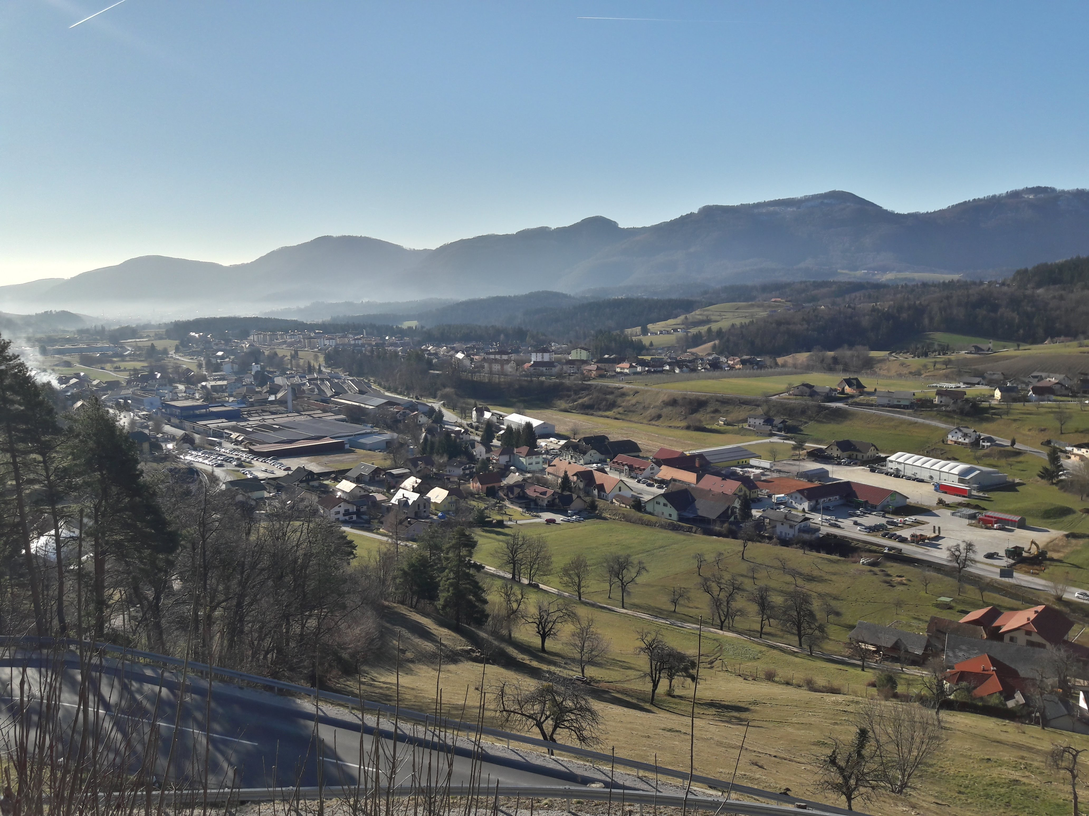 Zreče, settlement in Slovenia